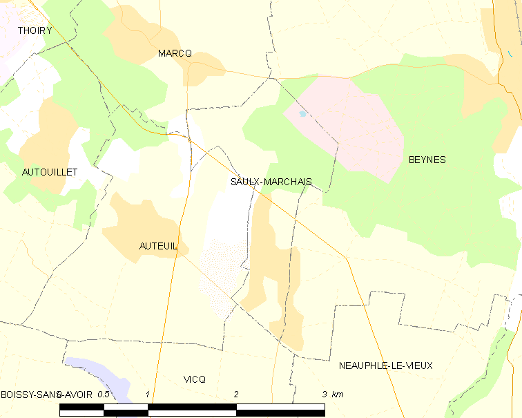 Map of French municipality Saulx-Marchais